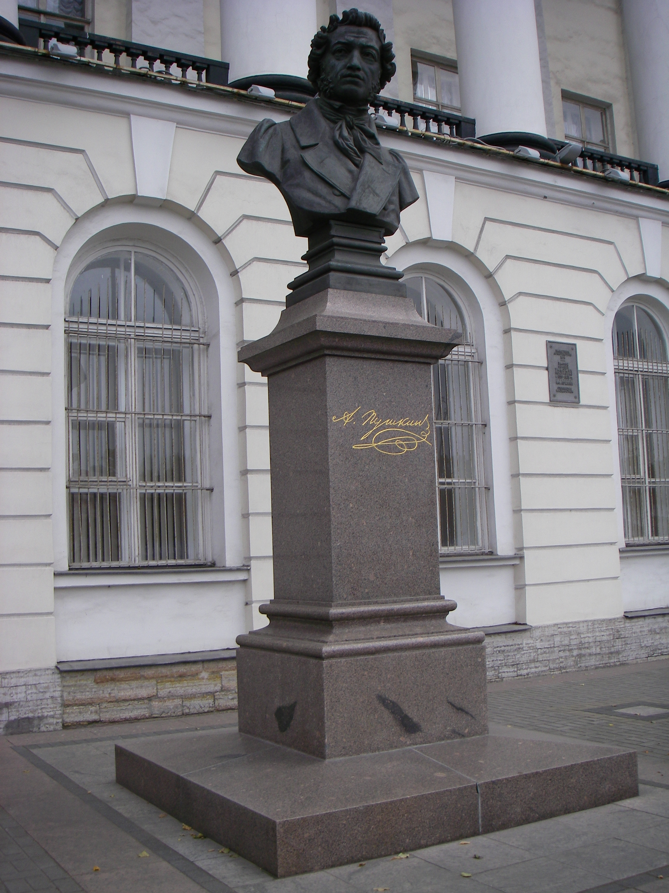 Monument to A.S. Puskin